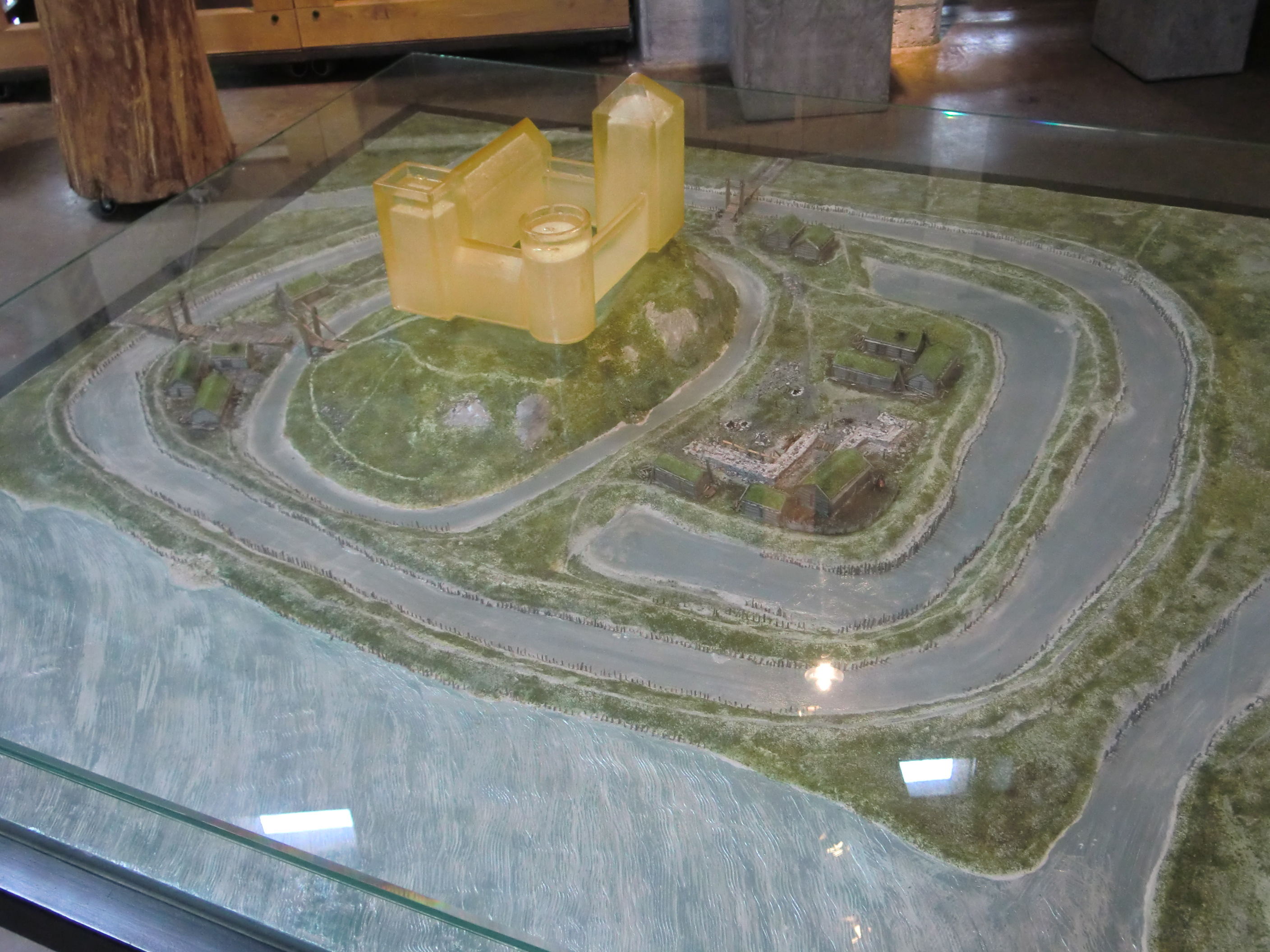 Reconstruction of the medieval castle Lödösehus, located at the river Göta älv in Sweden. View from the river (southwest).Model from Lödöse Museum.